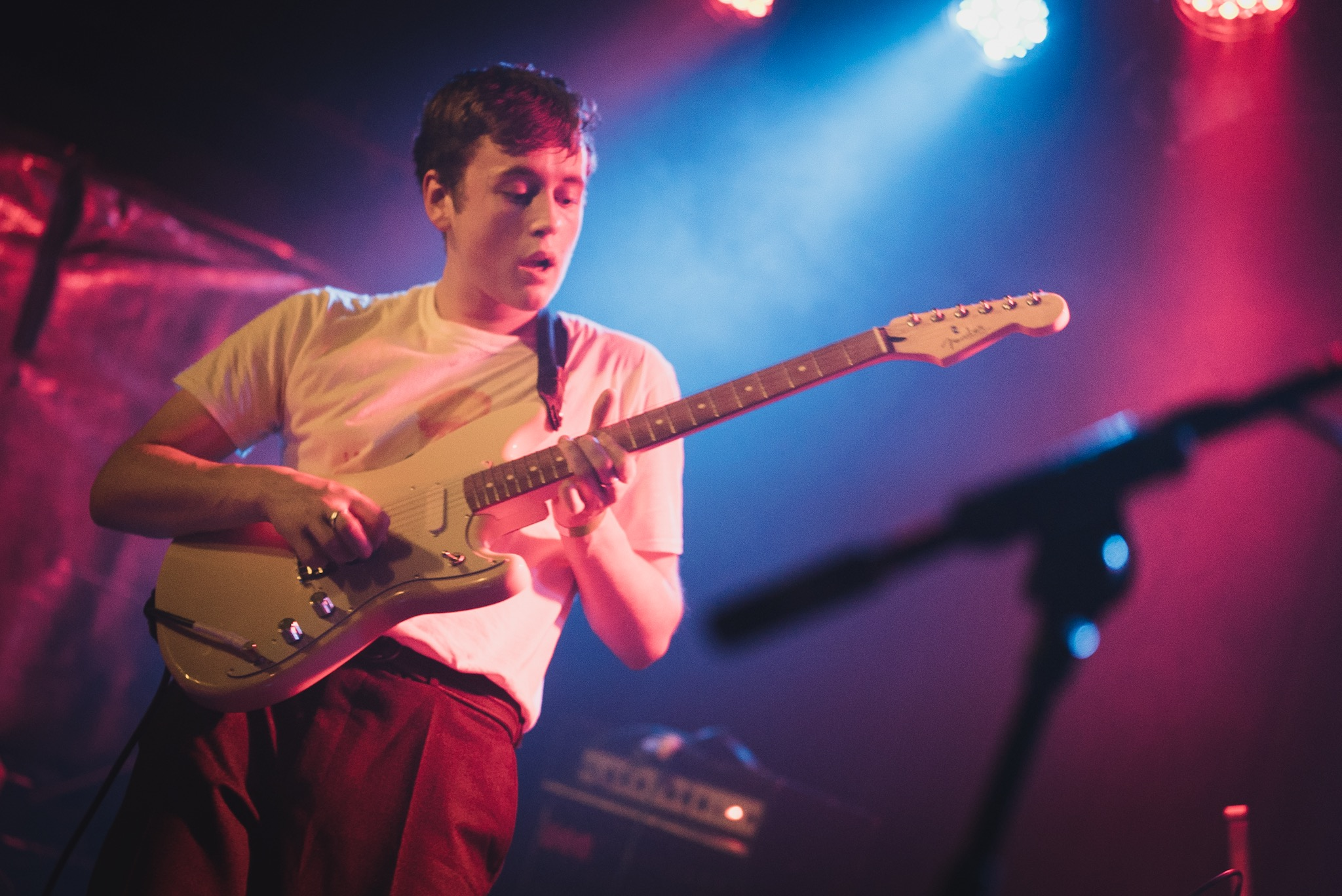 The Orielles at the Lexington